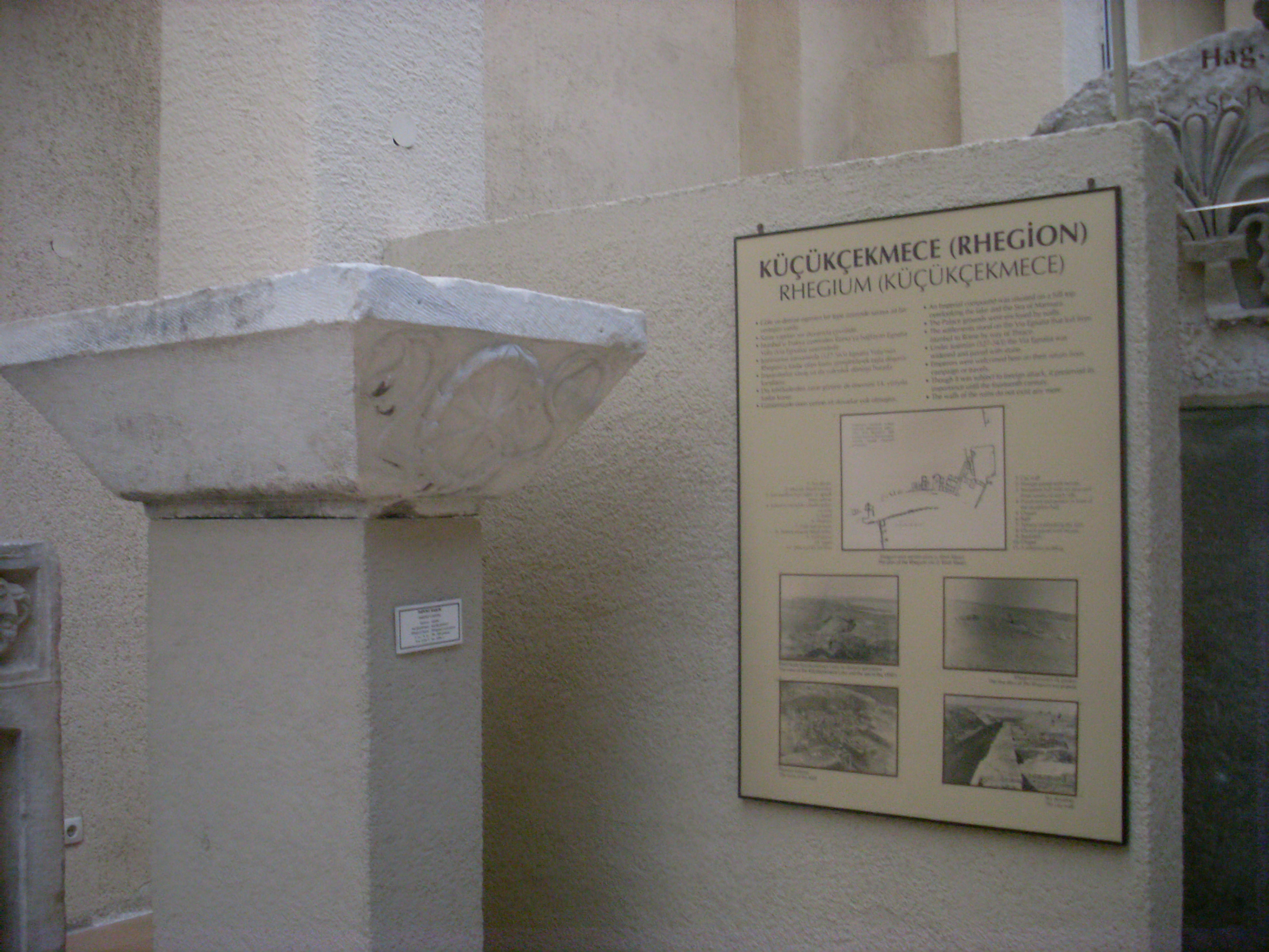 Istanbul Archaeological Museums - Küçükçekmece